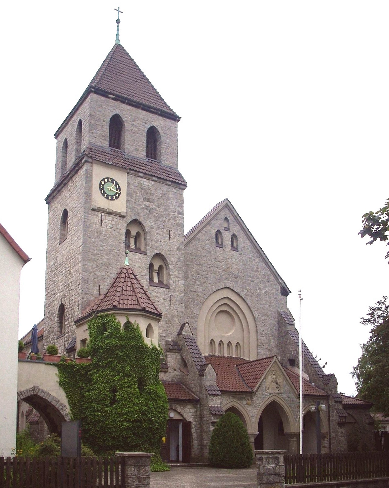 Hannover-Misburg, Hl. Herz Jesu Catholic Church